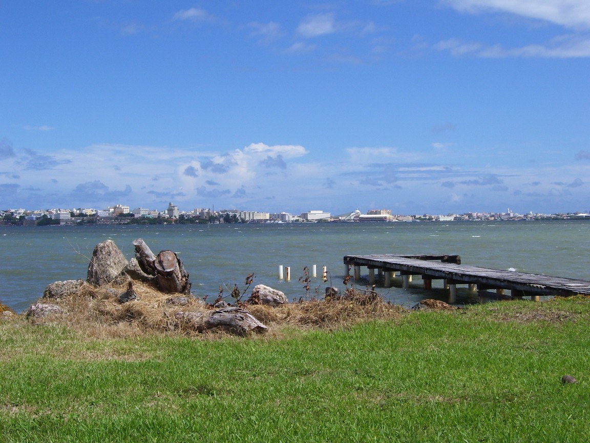 Shore of Cataño facing the San Juan Bay.